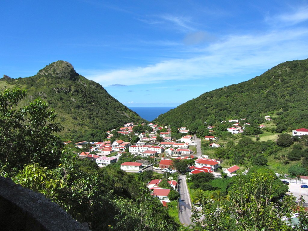 The Bottom Aerial View